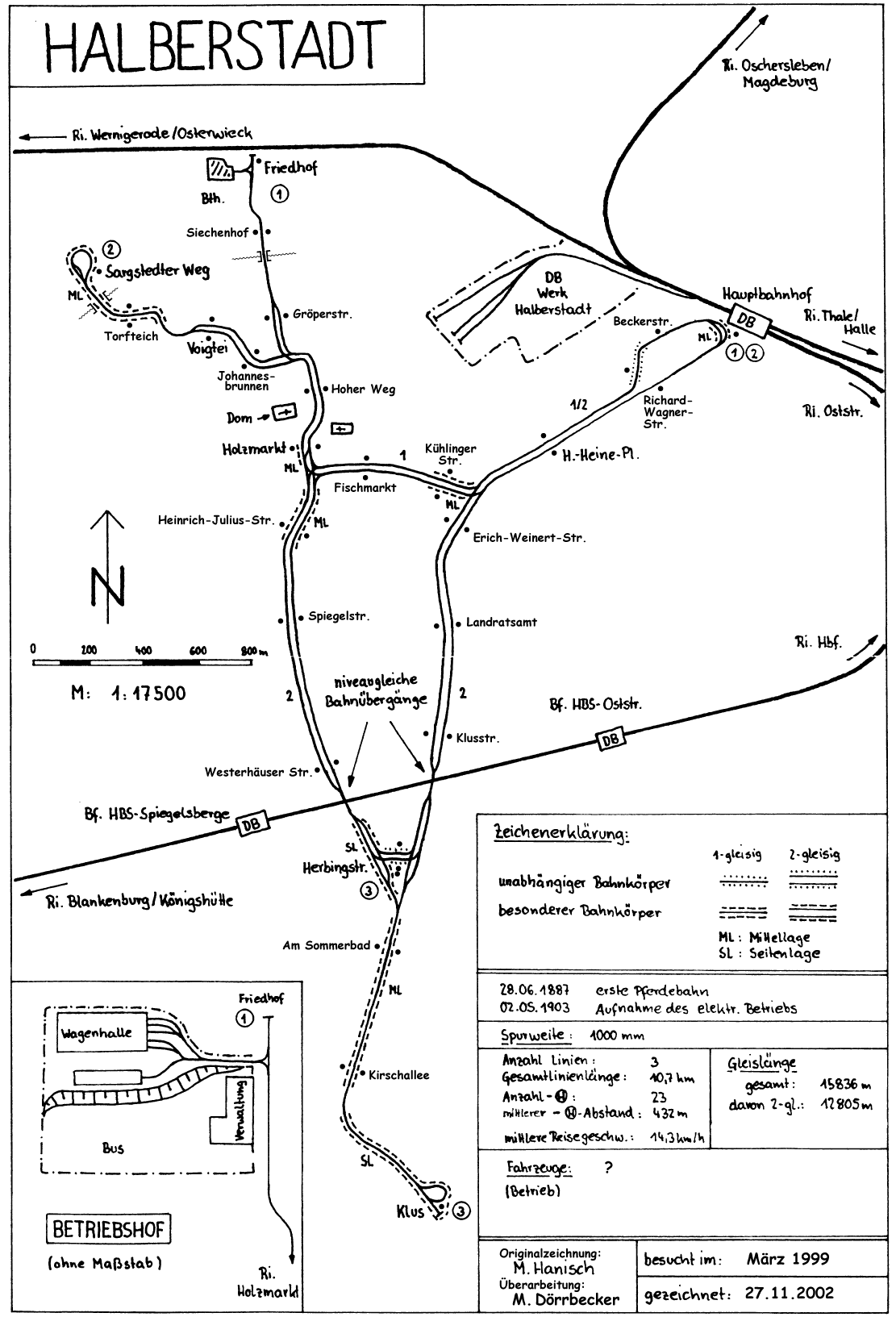 Halberstadt Streetcar Track Layout 1999